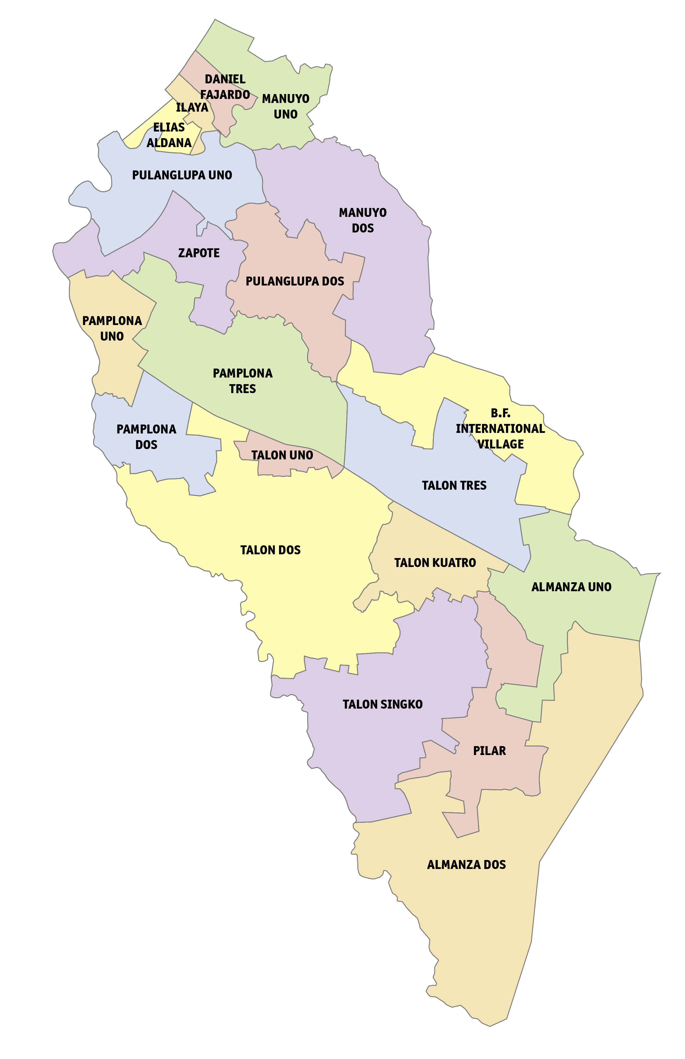 Political map of Las Piñas